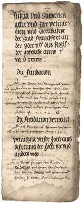 Founding document of Frankfurt (Oder), Brandenburg, Germany